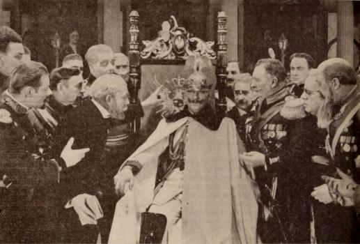 Still from the American propaganda war film The Kaiser, the Beast of Berlin (1918) with Rupert Julian as the Kaiser portraying the "scrap of paper" incident, on page 40 of the April 13, 1918 Exhibitors Herald.